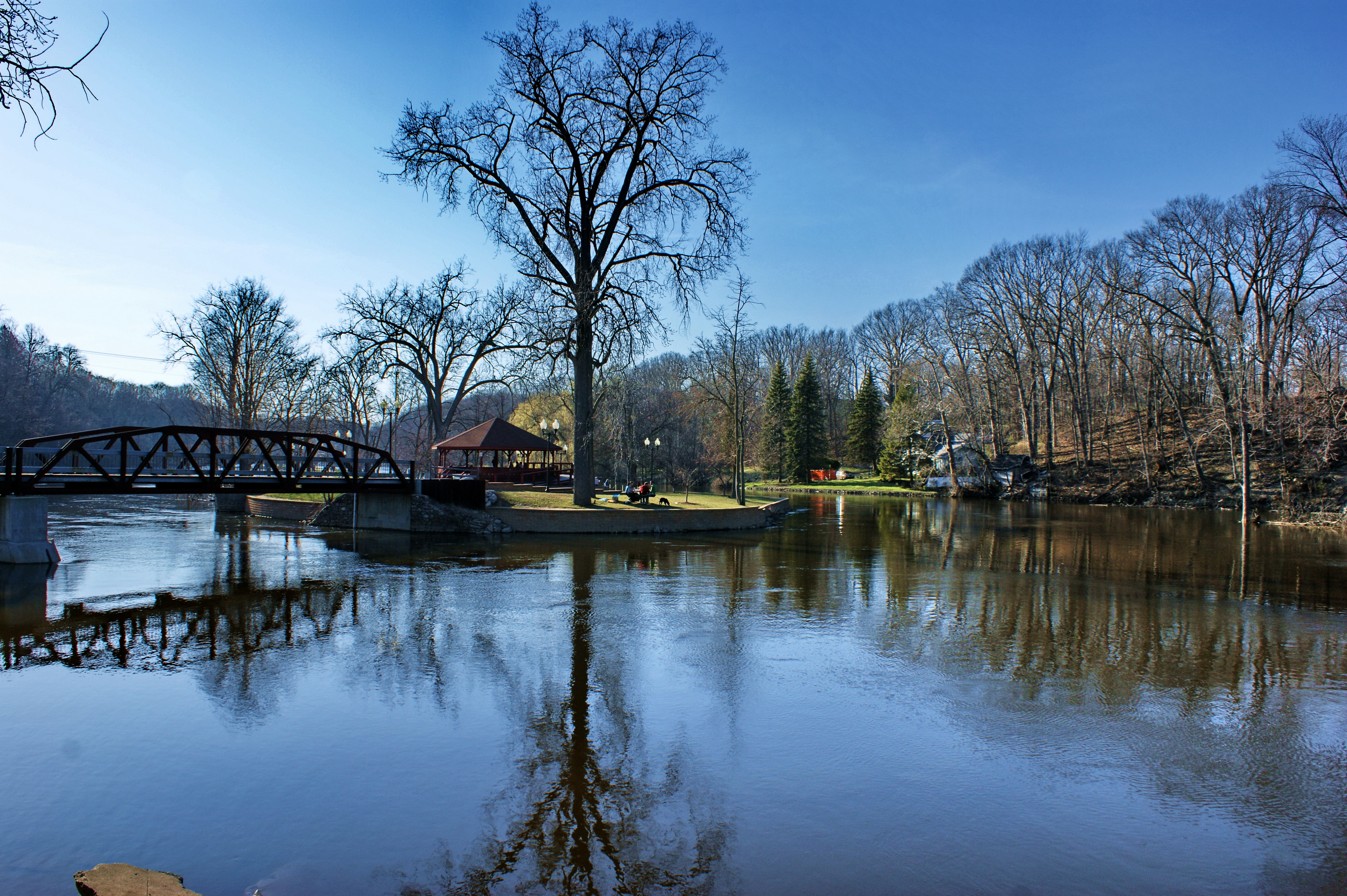 Island Park in Grand Ledge, MI. View from W River St.